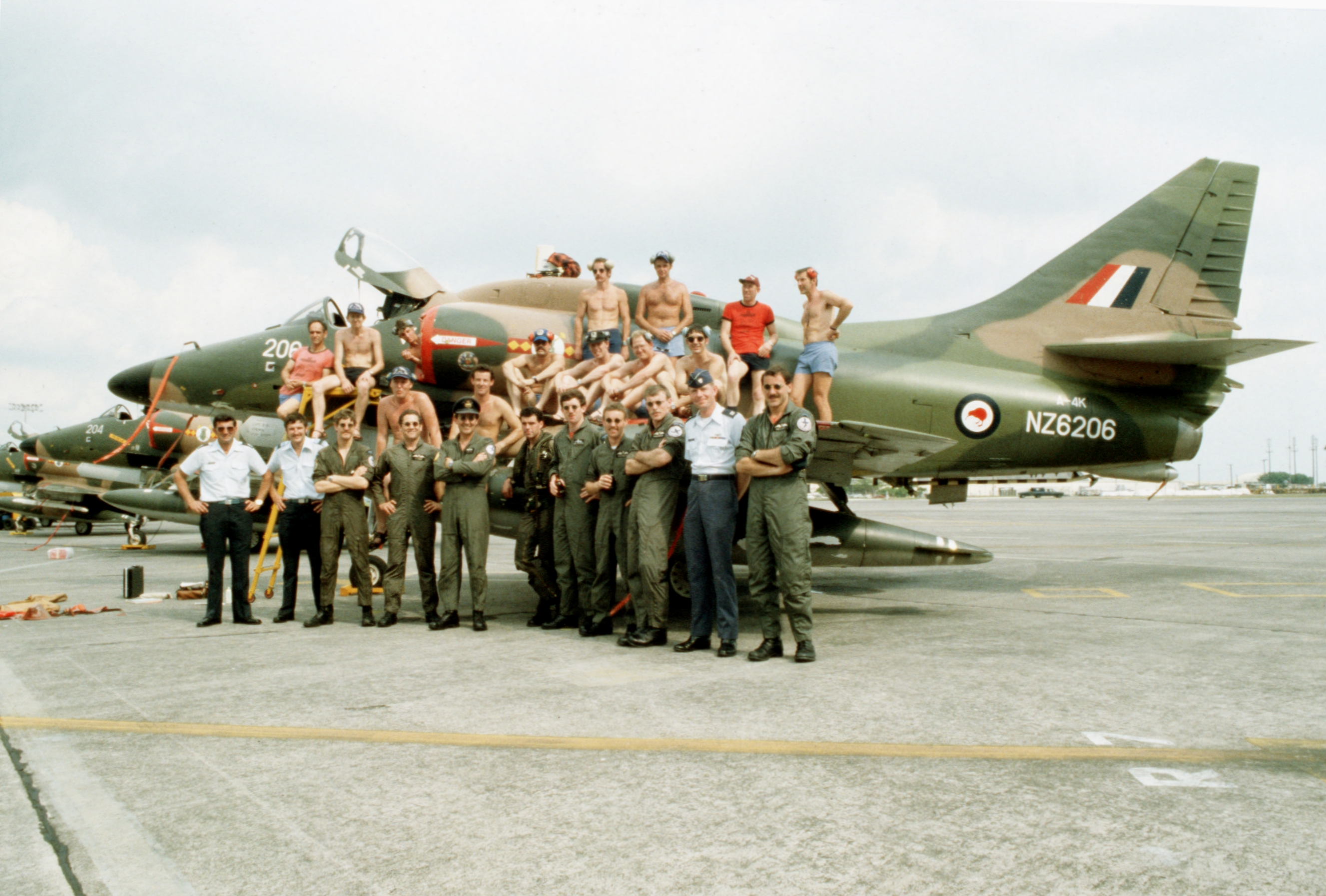 Pilots and ground crew members of No. 75 Squadron, Royal New Zealand Air Force, pose in front of one of their Douglas A-4K Skyhawk aircraft (s/n NZ6206) with members of the U.S. Air Force. 75 Squadron was participating in the air combat training exercise “Cope Thunder '83-1” at Clark Air Base, Luzon Philippines.